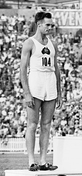 Commonwealth Games 1950 in Auckland. Australian trio Brian Oliver, Leslie McKeand and Ian Polmear ensured it was a triple treat in the triple jump. The Age Picture by STAFF